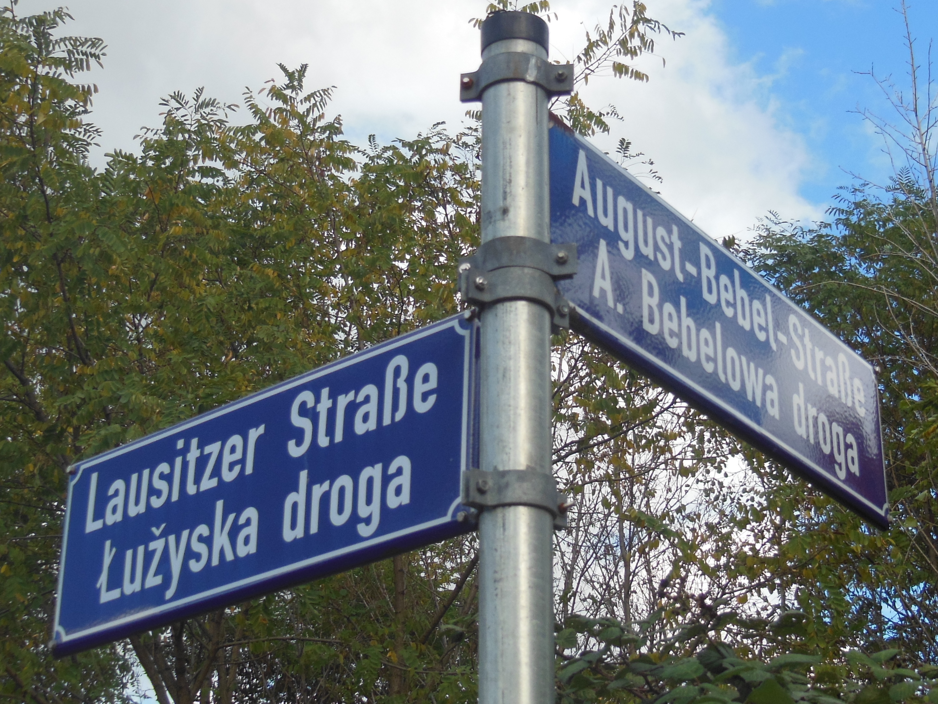 Bilingual, German-Lower Sorbian street sign in the city of Cottbus in Brandenburg, Germany.